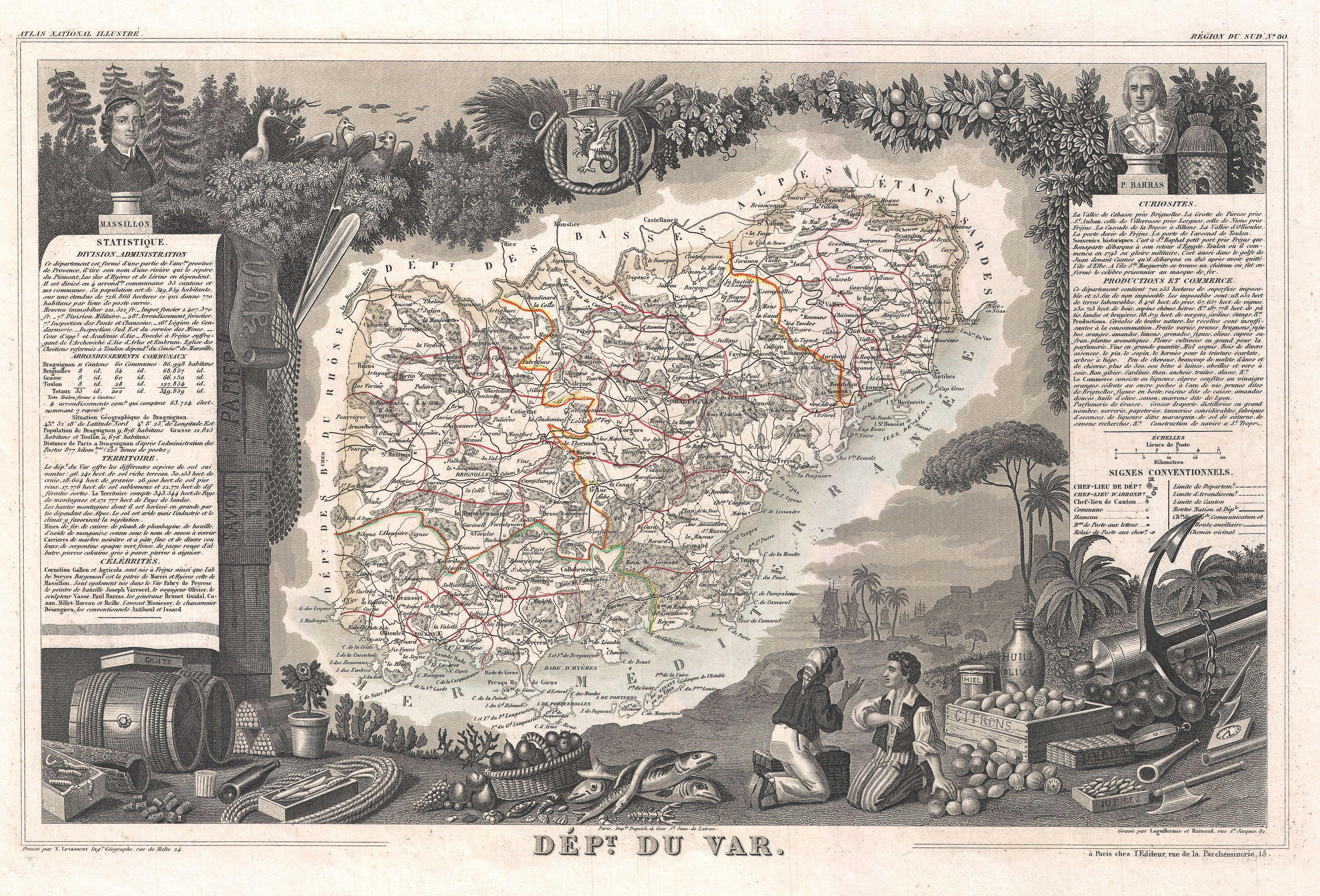 This is a fascinating 1852 map of the French department of Var, the heart of the French Riviera or Côte d'Azur. Includes the resort cities of Cannes, Nice and San Tropez, among many others. This area also houses a number of vineyards. Here you will find the AOC Coteaux varois en Provence, which produces a wide variety of reds and whites. The red wines principally use the grenache, cinsaut, mourvèdre and syrah grapes. White wines use the clairette, grenache blanc, rolle blanc, Sémillon Blanc, and Ugni Blanc. The map proper is surrounded by elaborate decorative engravings designed to illustrate both the natural beauty and trade richness of the land. There is a short textual history of the regions depicted on both the left and right sides of the map. Published by V. Levasseur in the 1852 edition of his Atlas National de la France Illustree.